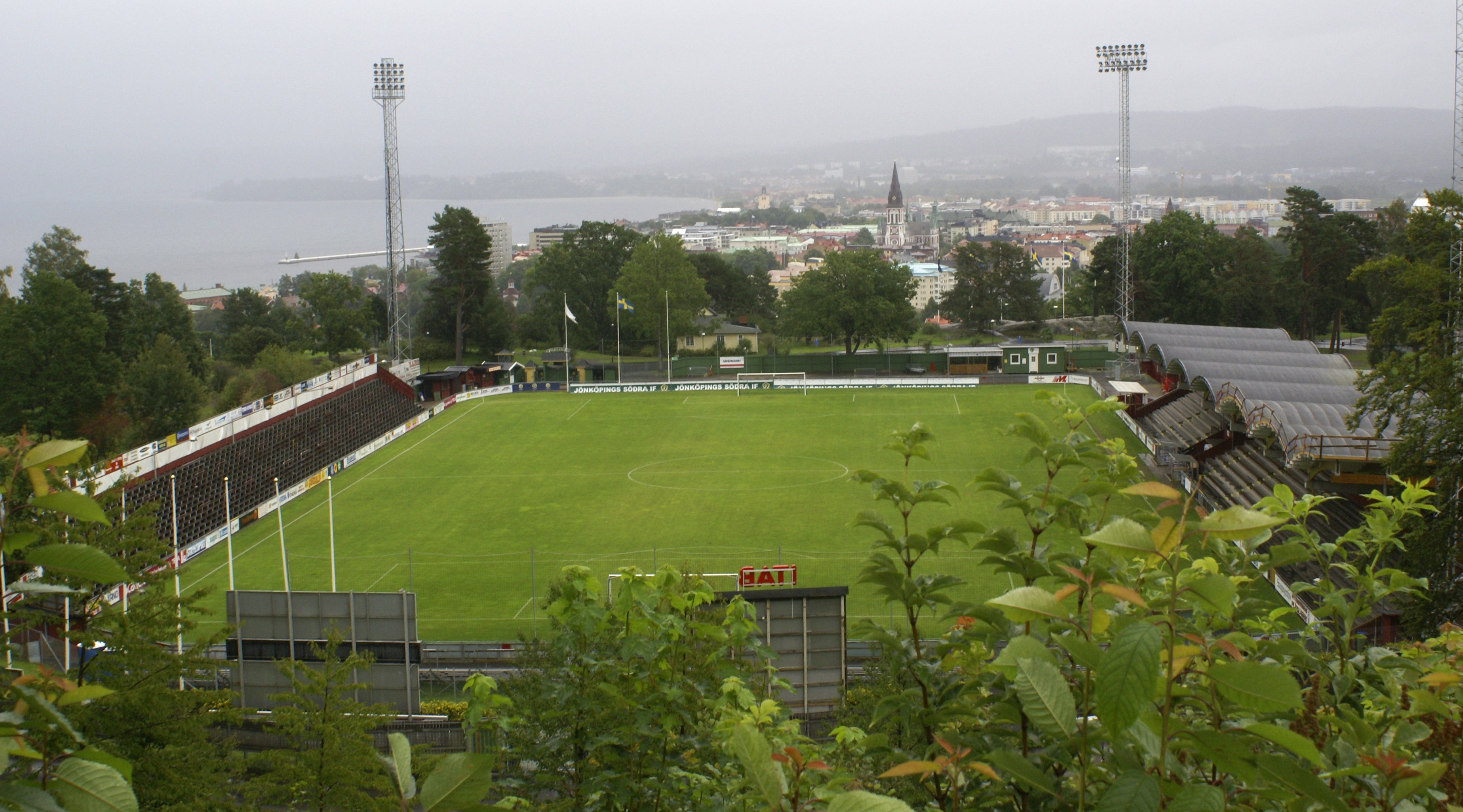 Stadsparksvallen